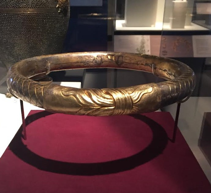 The silver-gilt diadem from the tomb of King Philip II of Macedon at Vergina, Greece. The photo was taken during the display in a traveling exhibition “The Greeks: From Agamemnon to Alexander the Great” at the Field Museum Chicago in 2016.